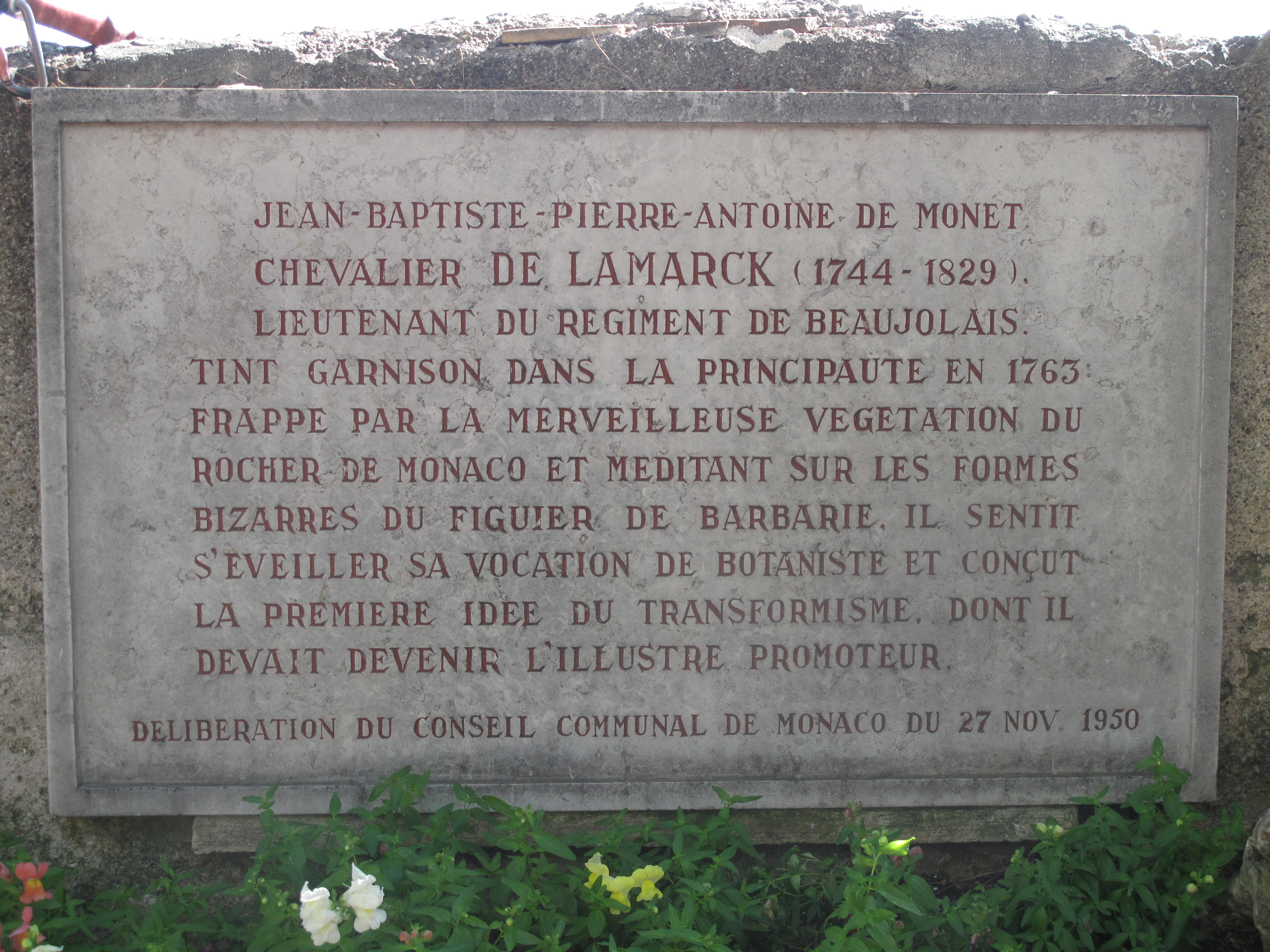 Plaque about Jean-Baptiste Lamarck in Monaco.